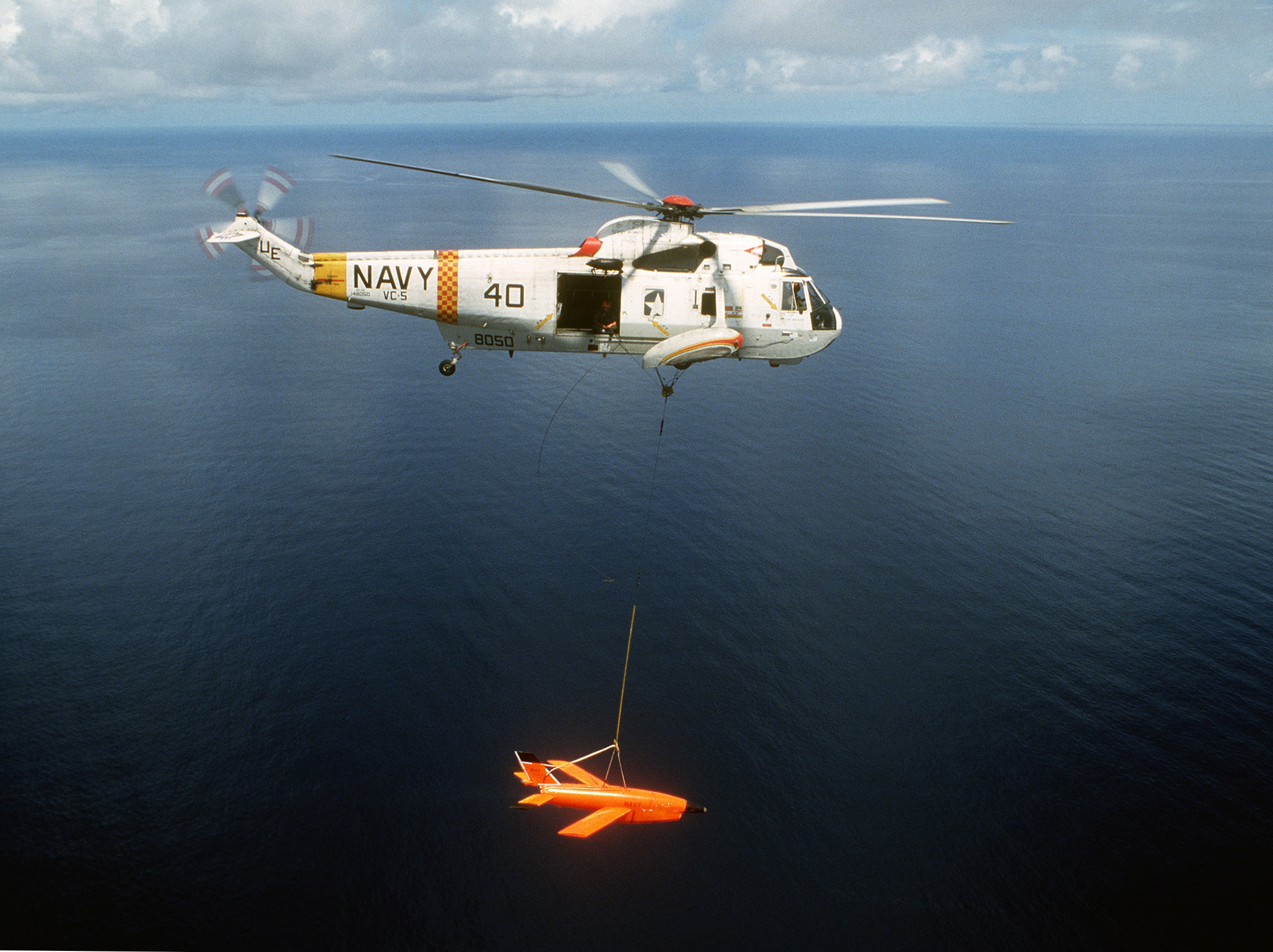 A U.S. Navy Sikorsky SH-3G Sea King helicopter (BuNo 148050) from Fleet Composite Squadron 5 (VC-5) carrying a Ryan BQM-34S Firebee drone, in 1981.